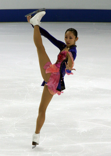 Miki Ando performs a spiral as part of her spiral sequence in her short program at the 2008 Skate America.